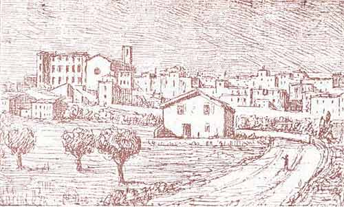 The french village Éguilles abouth 1880